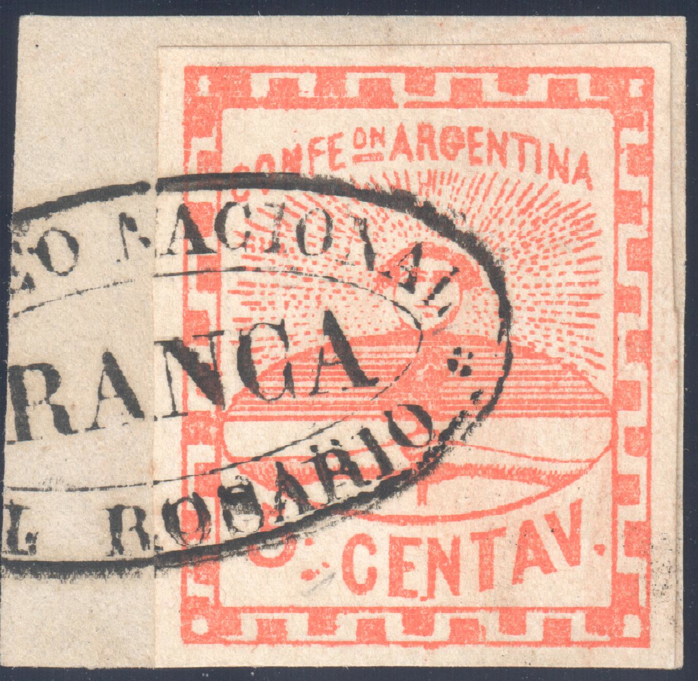 Argentina first issue, 1858 used by oval posmark '(CORR)EO NACIONAL / (F)RANCA / (DEL) ROSARIO'